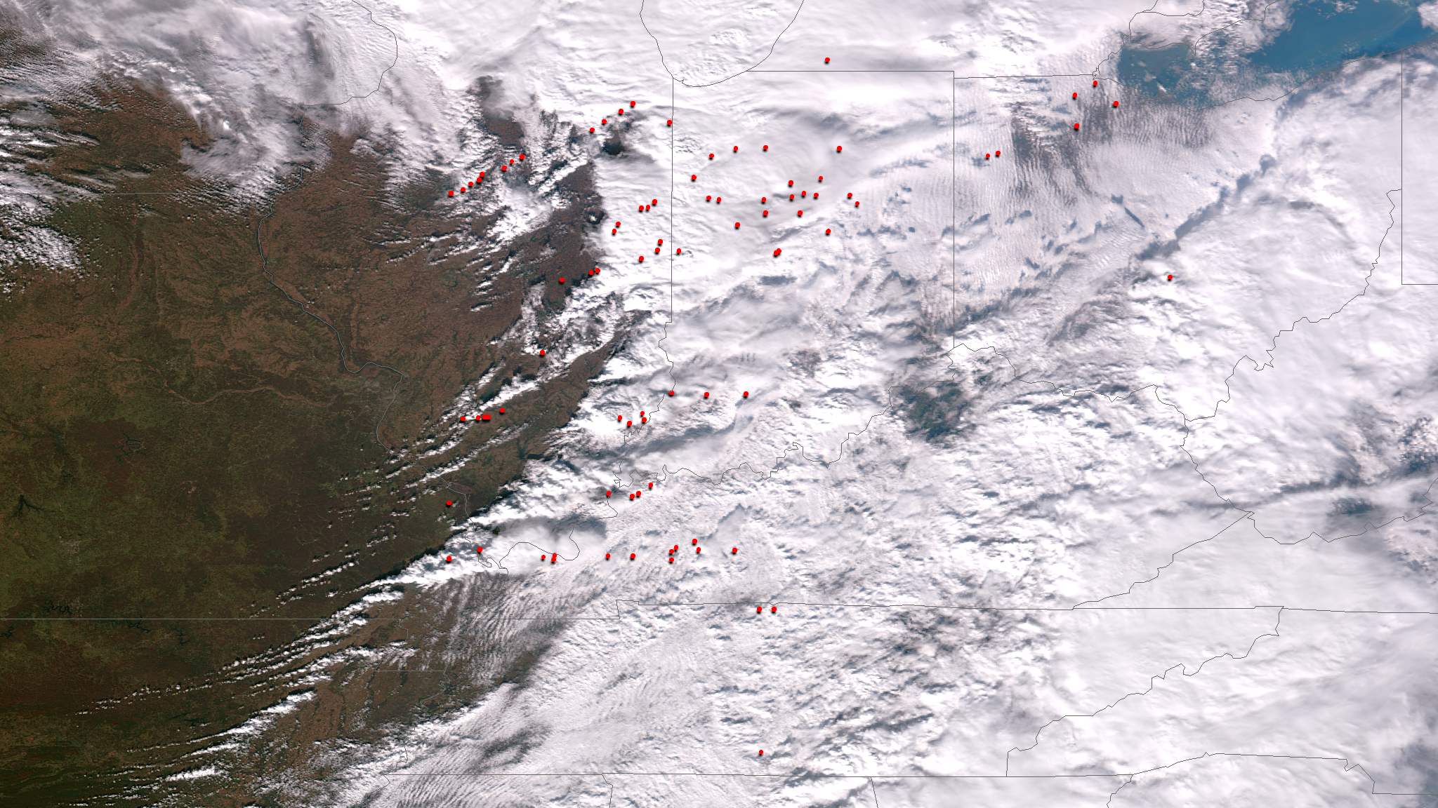 Satellite image using the VIIRS instrument aboard the Suomi NPP satellite of thunderstorms developing across eastern Illinois and into Indiana during the deadly November 17, 2013 tornado outbreak in the Midwest United States.